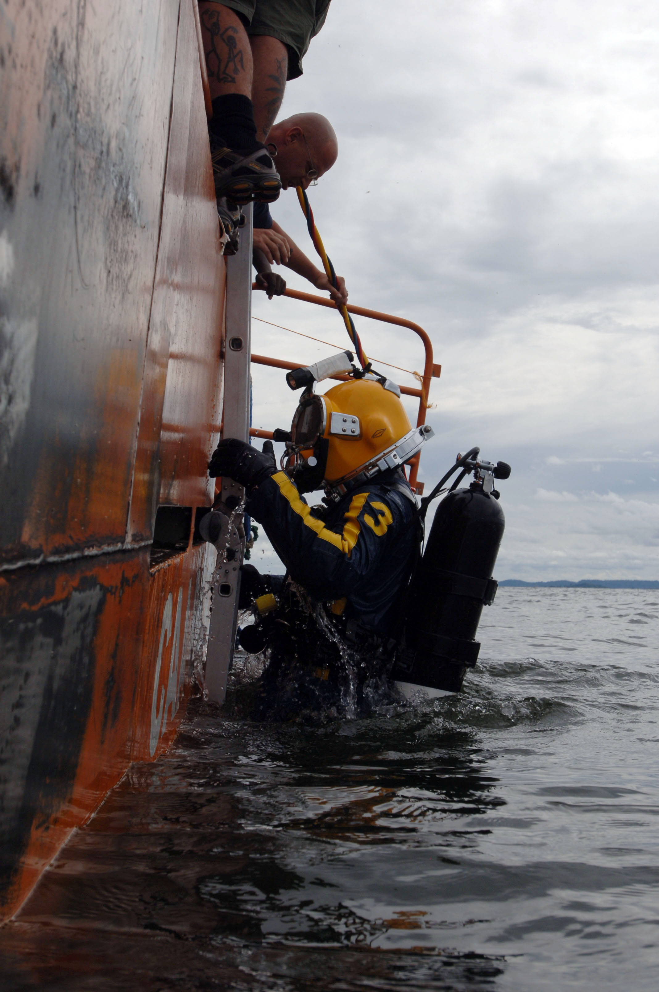 ENTEBBE, Uganda (April 1, 2009) Navy Diver 1st Class Matthew Schlabach, from Anderson, Ind., climbs aboard a Ugandan Civil Aviation Authority rescue boat serving as a diving platform after completing a 68-foot dive into Africa's Lake Victoria. Schlabach is participating in the Combined Joint Task Force-Horn of Africa (CJTF-HOA) mission to locate the wreckage of an Ilyushin 76 cargo aircraft that crashed March 9 and retrieve information for the Ugandan government investigation. (U.S. Navy photo by Chief Mass Communication Specialist Cory Drake/Released)